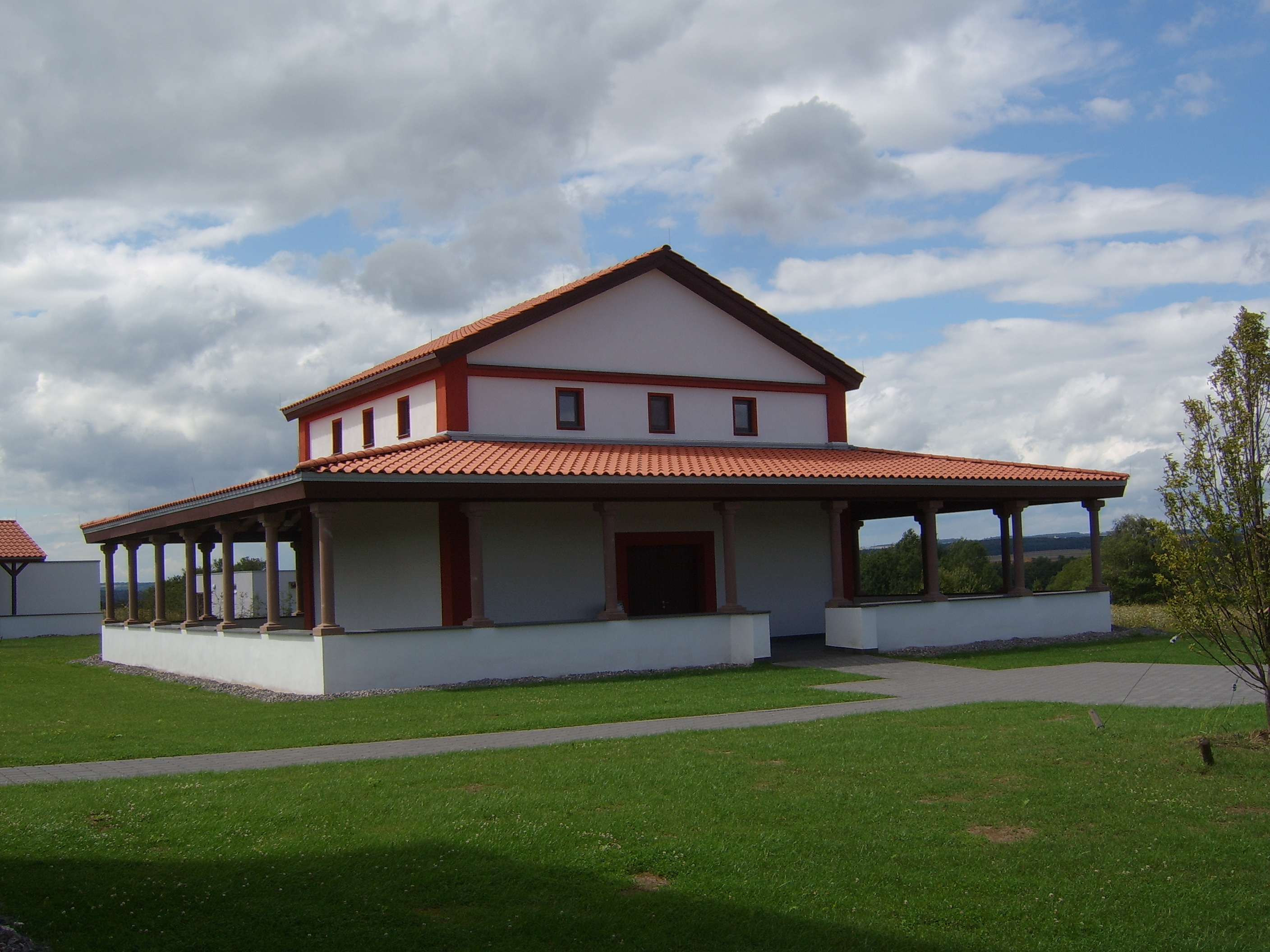 Reconstructed Gallo-Roman temple on the Martberg in the Eifel.